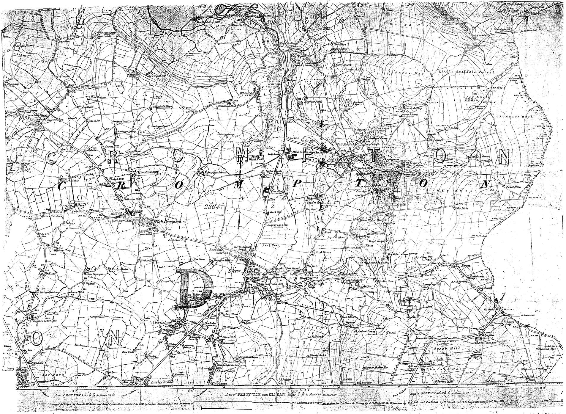 The 1851 Ordance Survey map of Crompton, then in Lancashire (now Greater Manchester), England.